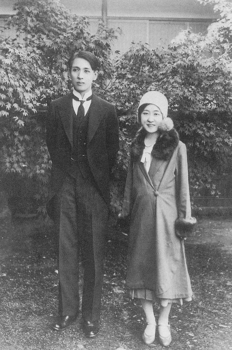 The photograph of Princess Dukhye and Count Takeyuki So, that was shot in 1931 in Izuhara, Tsushima.